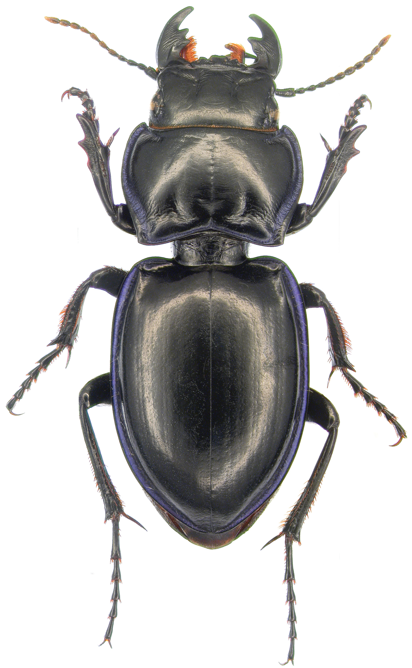 Pasimachus elongatus LeConte. Because of its large size and robust shape, this species is one of the most conspicuous carabid elements of the grassland regions of North America. It belongs to a genus which is endemic to North and Middle America. Although not firmly established, the sister taxon to Pasimachus could be Mouhotia, a genus of massive and handsome species endemic to southeast Asia.